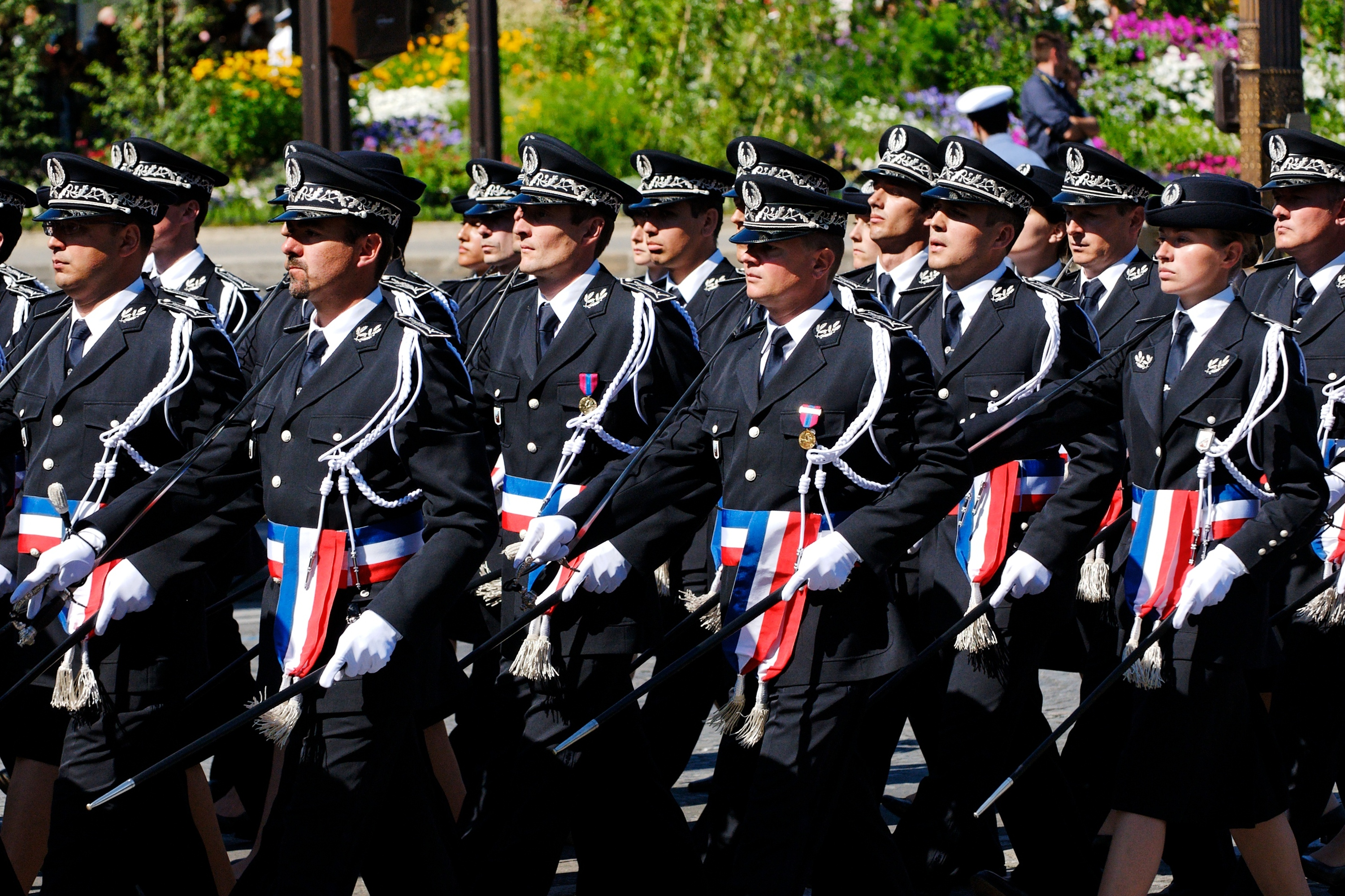 Trainees of the French National Police Academy, Bastille Day 2008 military parade on the Champs-Élysées, Paris.